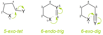 3 examples for reaction nomenclature according to the Baldwin-Rules. 5-exo-tet, 6-endo-trig and 6-exo-dig